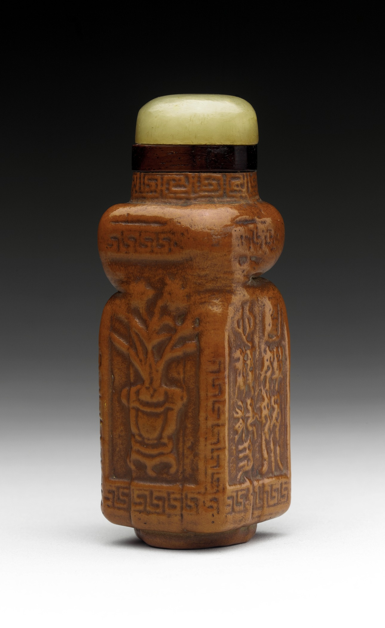 China, Qing dynasty, Qianlong period, 1736-1795 Tools and Equipment; bottles Molded gourd, with hardstone stopper 3 3/4 x 1 1/4 x 1 1/4 in. (9.53 x 3.18 x 3.18 cm) Mr. and Mrs. Allan C. Balch Collection (M.45.3.333a-b) Chinese Art